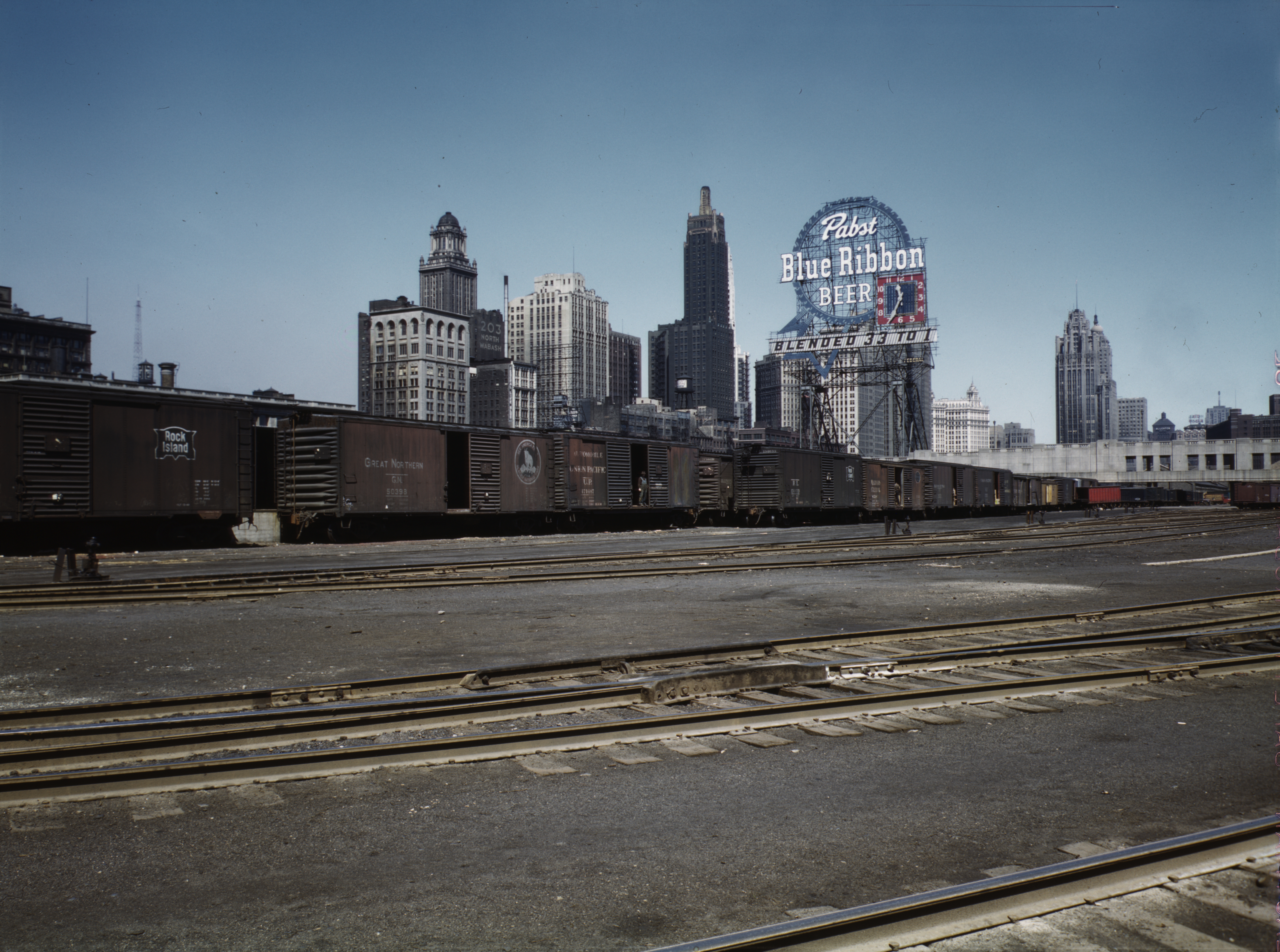 General view of part of the South Water Street freight depot of the Illinois Central Railroad, Chicago, Illinois. Notes: Title from FSA or OWI agency caption. Transfer from U.S. Office of War Information, 1944. Subjects: Illinois Central Railroad World War, 1939-1945 Railroad stations Railroad freight cars United States--Illinois--Chicago Format: Transparencies--Color Repository: Library of Congress, Prints and Photographs Division, Washington, D.C. 20540 USA, Part Of: Farm Security Administration - Office of War Information Collection 12002-11 (DLC) 93845501 General information about the FSA/OWI Color Photographs is available at Persistent URL: Call Number: LC-USW36-599